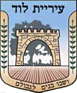 Coat of Arms of the city of Lod (Lydda)